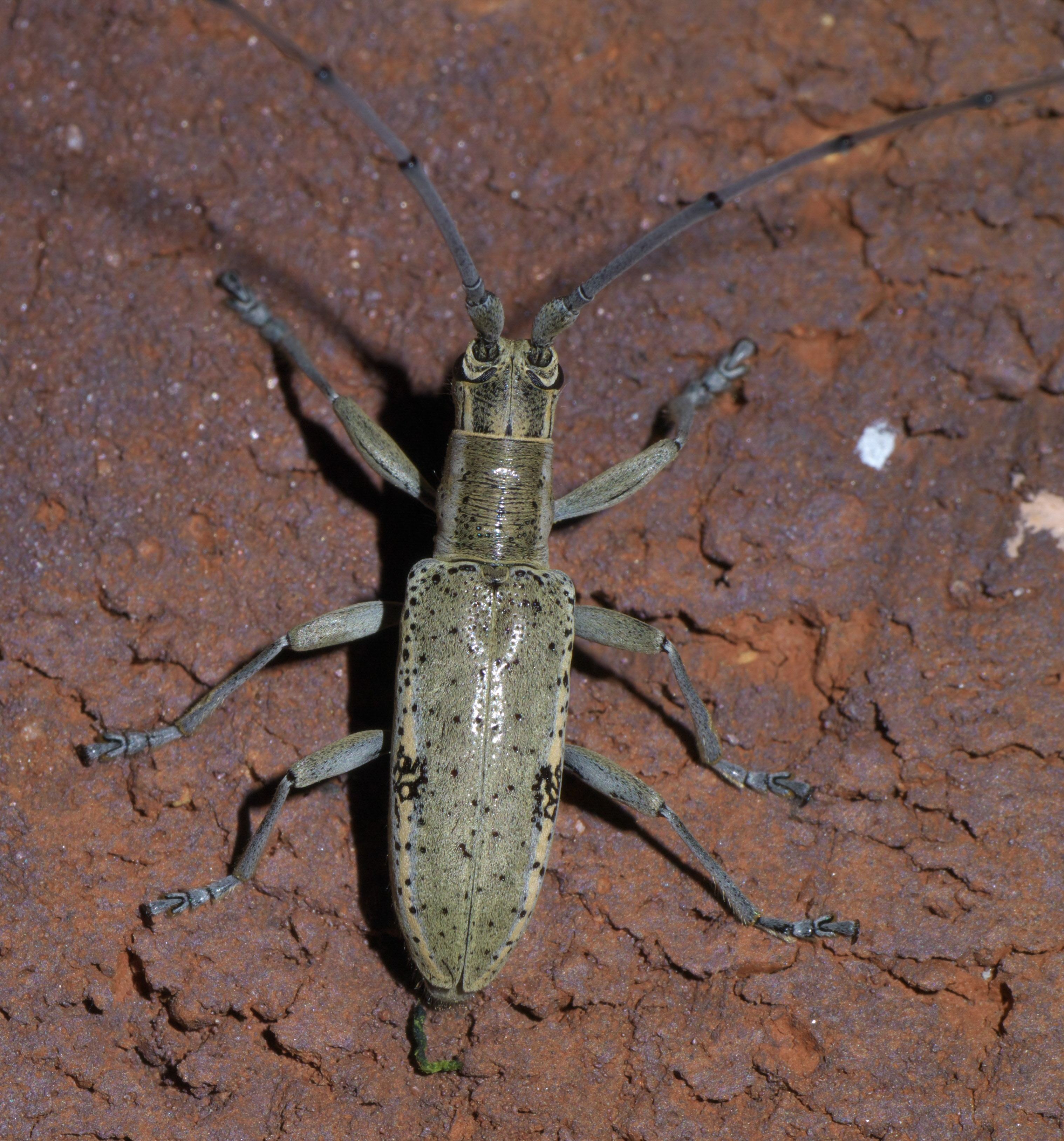 Dorcaschema wildii, mulberry borer, ID Confidence: 88